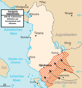 Greek counteroffensive in 1940